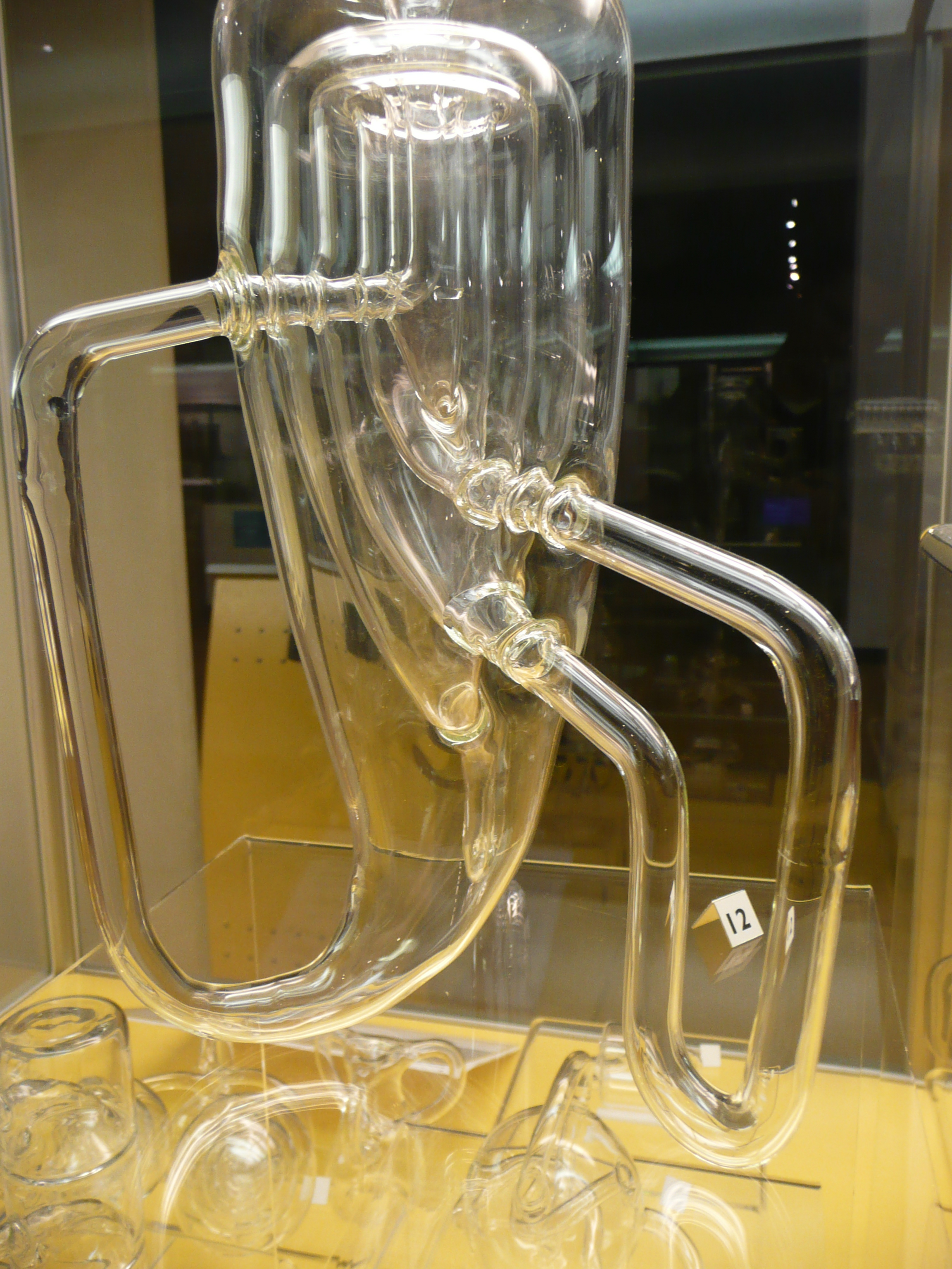 Photograph of a Klein bottle from Science Museum, London. Bennett's masterpiece, three Klein bottles inside each other. Of course "inside" is only true in the sense of being embedded in physical space, topologically they are to be regarded as completely separate. This image was selected as picture of the month on the Mathematics Portal of English Wikipedia for June 2013